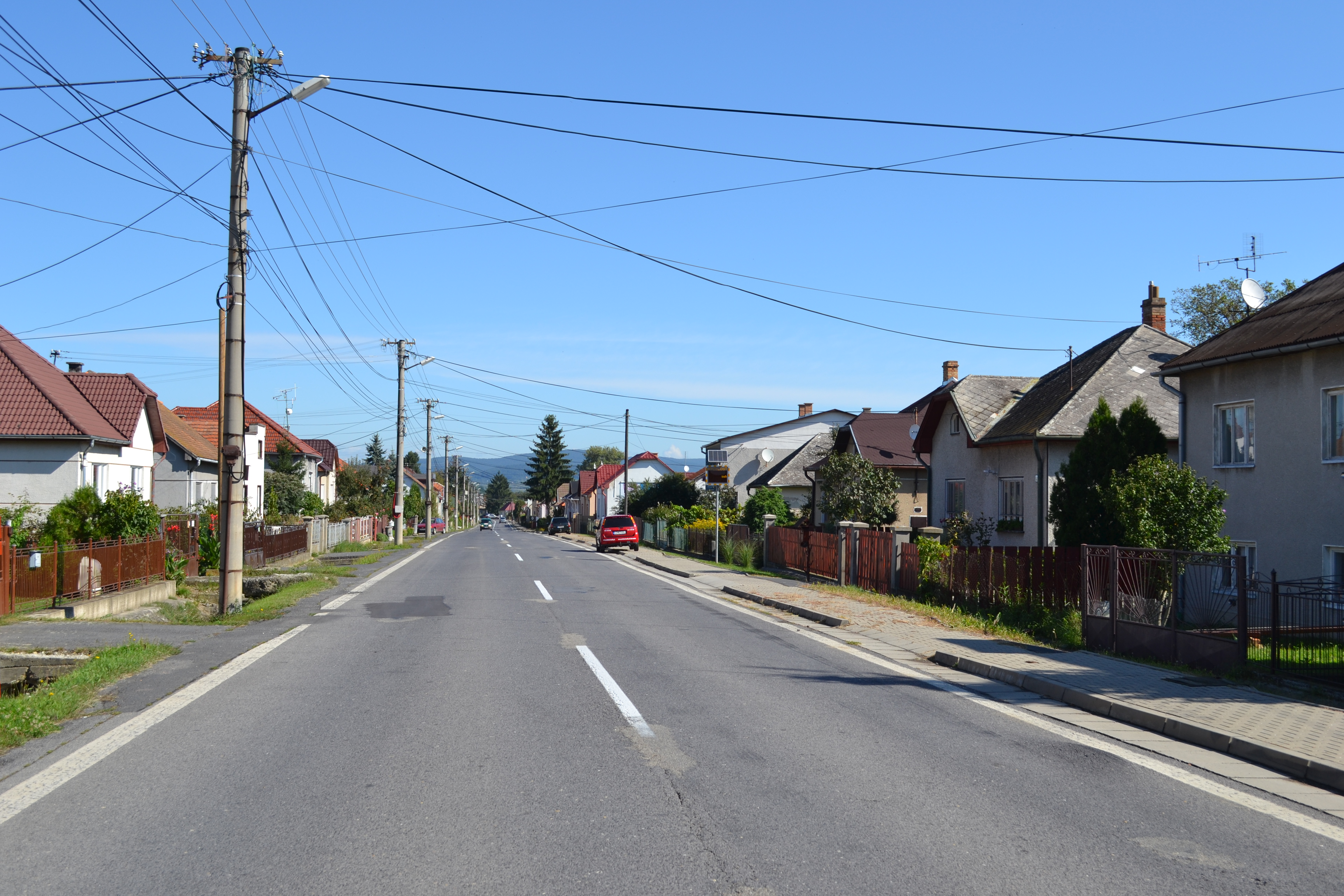 Street of the village RadzovceSlovenčina: Ulica obce Radzovce